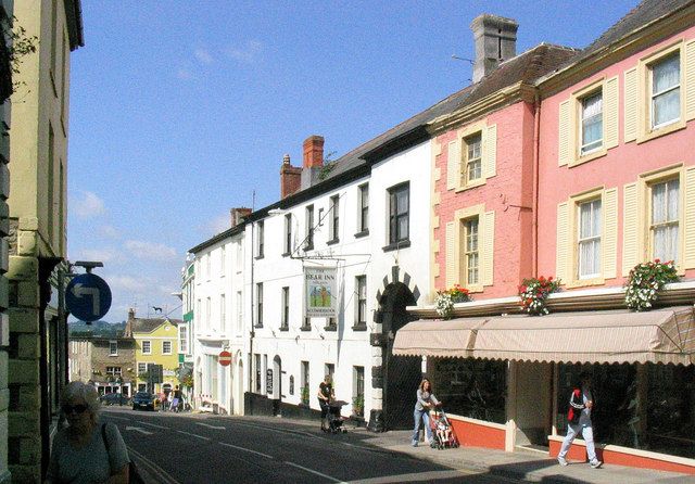 Wincanton Highstreet with the Bear former coaching inn (the white building) in the centre.